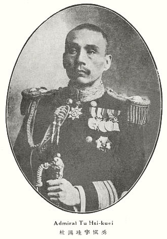 Du Xigui, Shencheng (1874 - 1933)